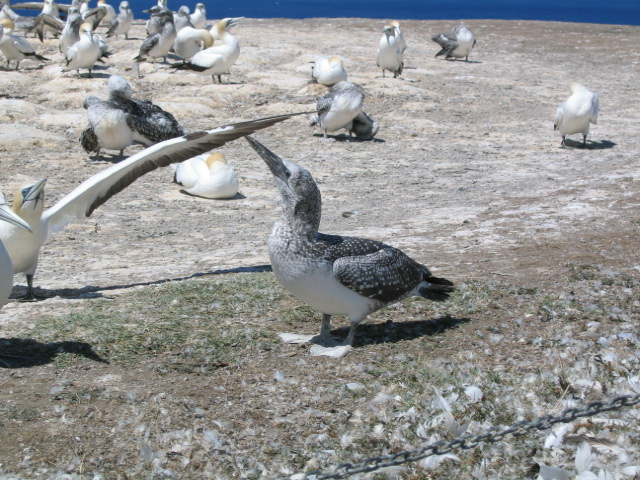 Australasian Gannet colony on Cape Kidnappers, New Zealand